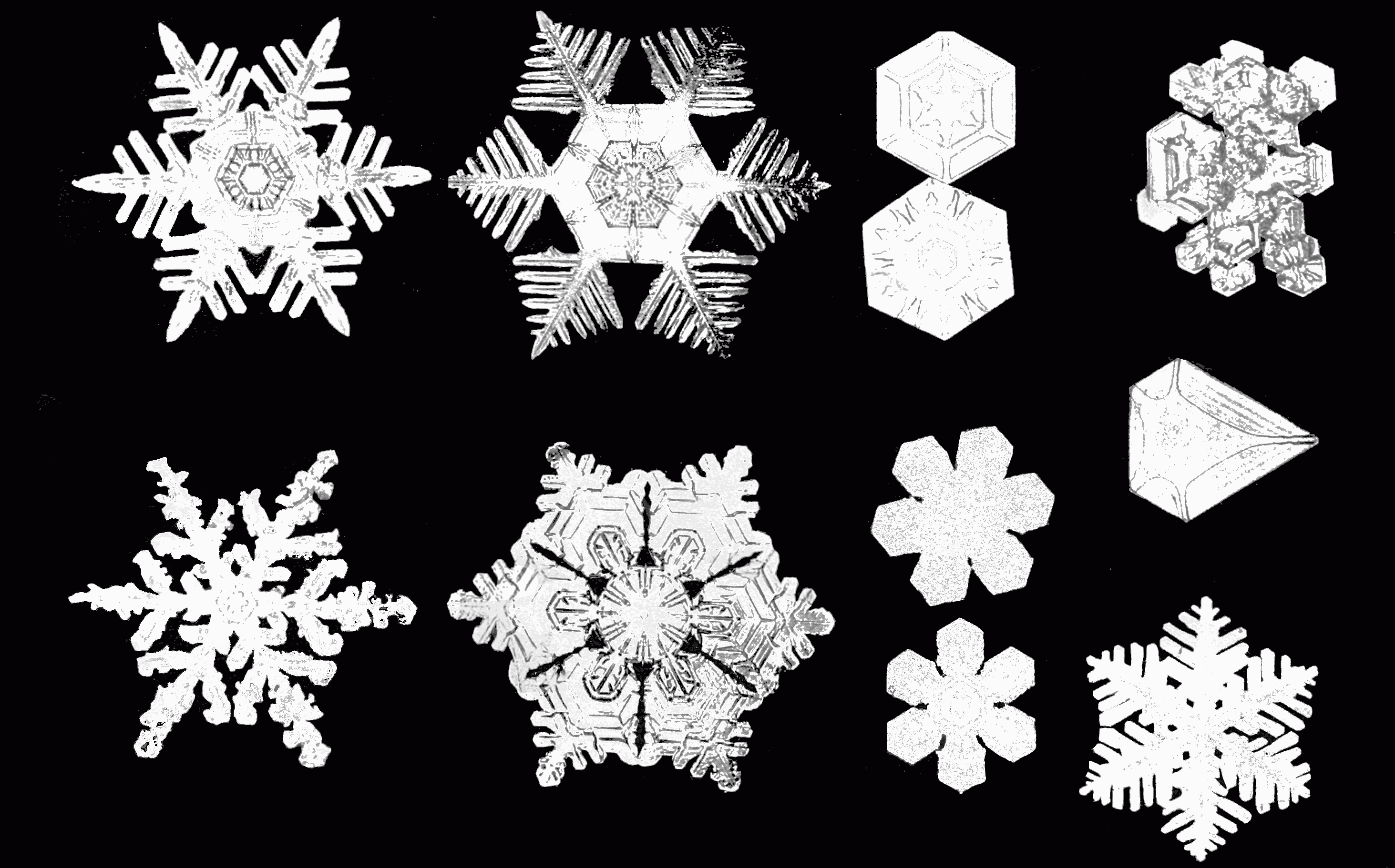 Various snow crystal forms